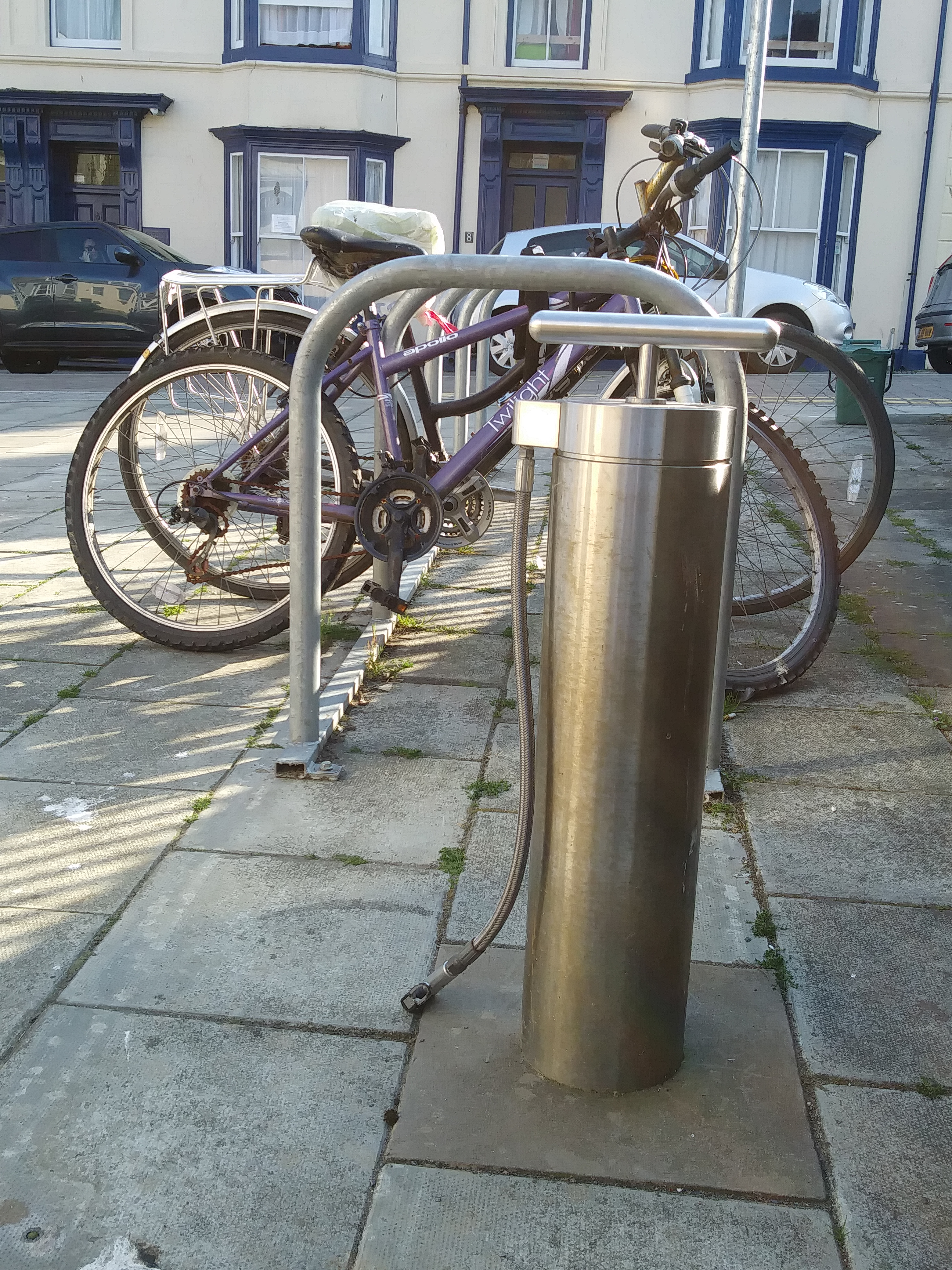 bike pump, Baker St, Aberystwyth